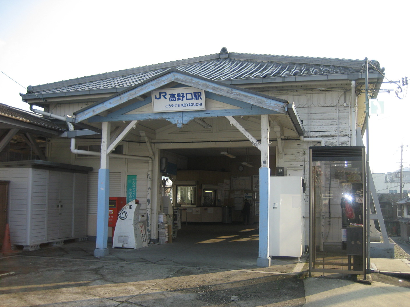 West Japan Railway, Wakayama Line, Koyaguchi station